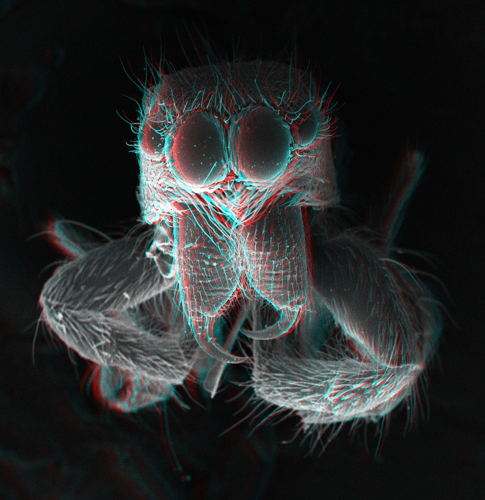 Fangs of a 4mm jumping spider. The image was taken in a Leitz Scanning electron microscope with two images tilted by 5° to create a 3D image.